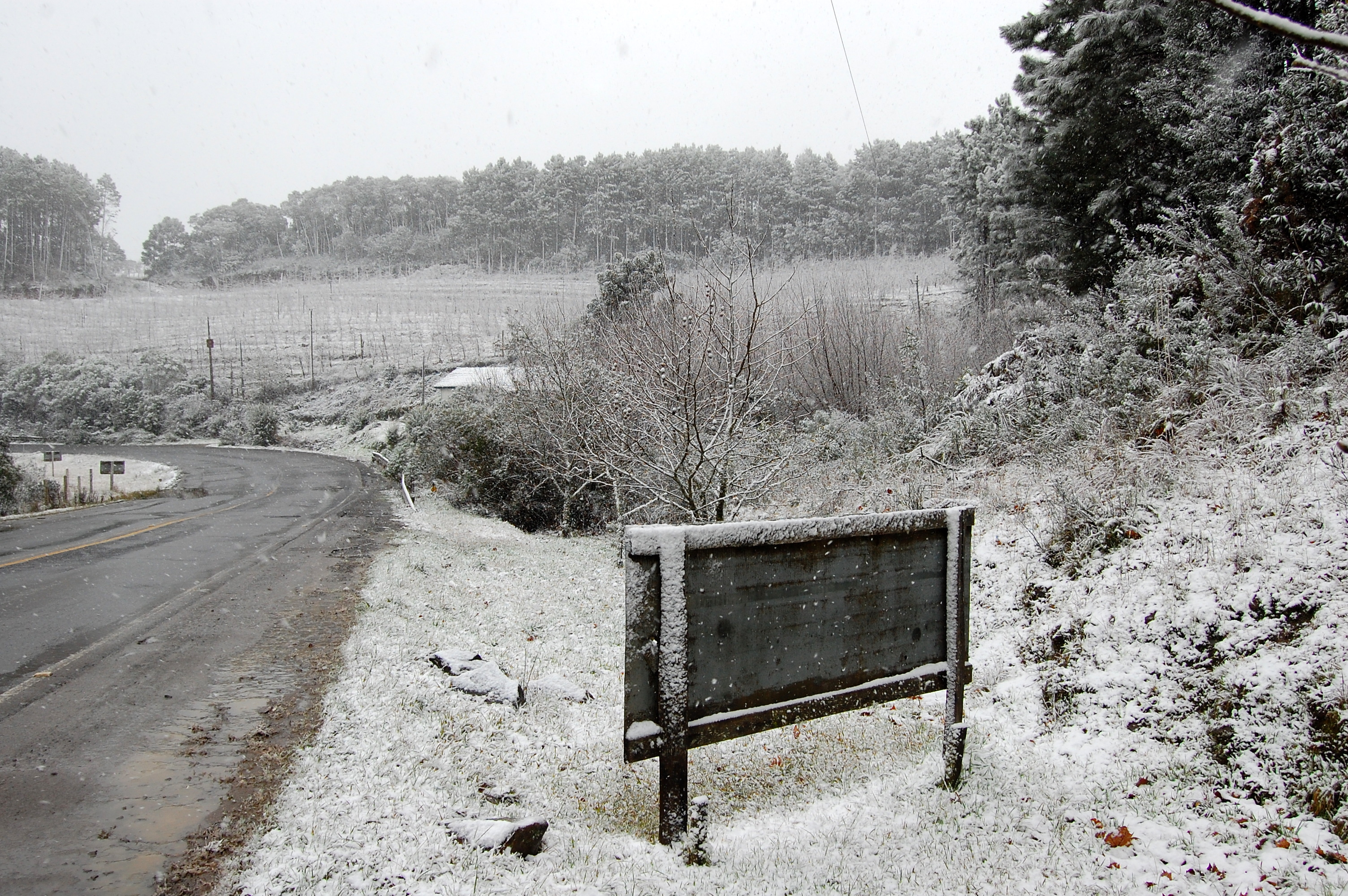 Snow in Brazil, São Joaquim's countryside, August 2010.